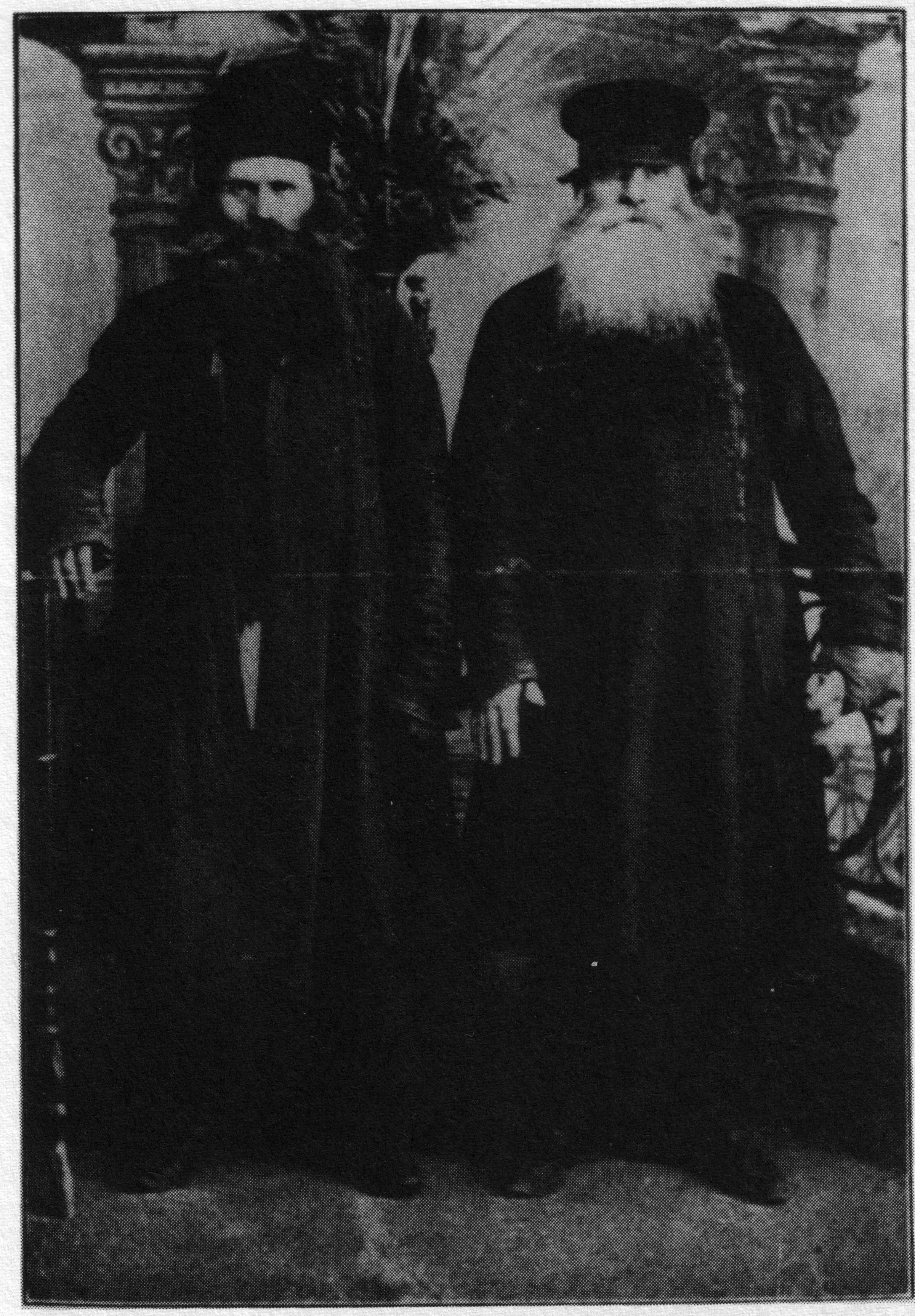 Molokan presbyters